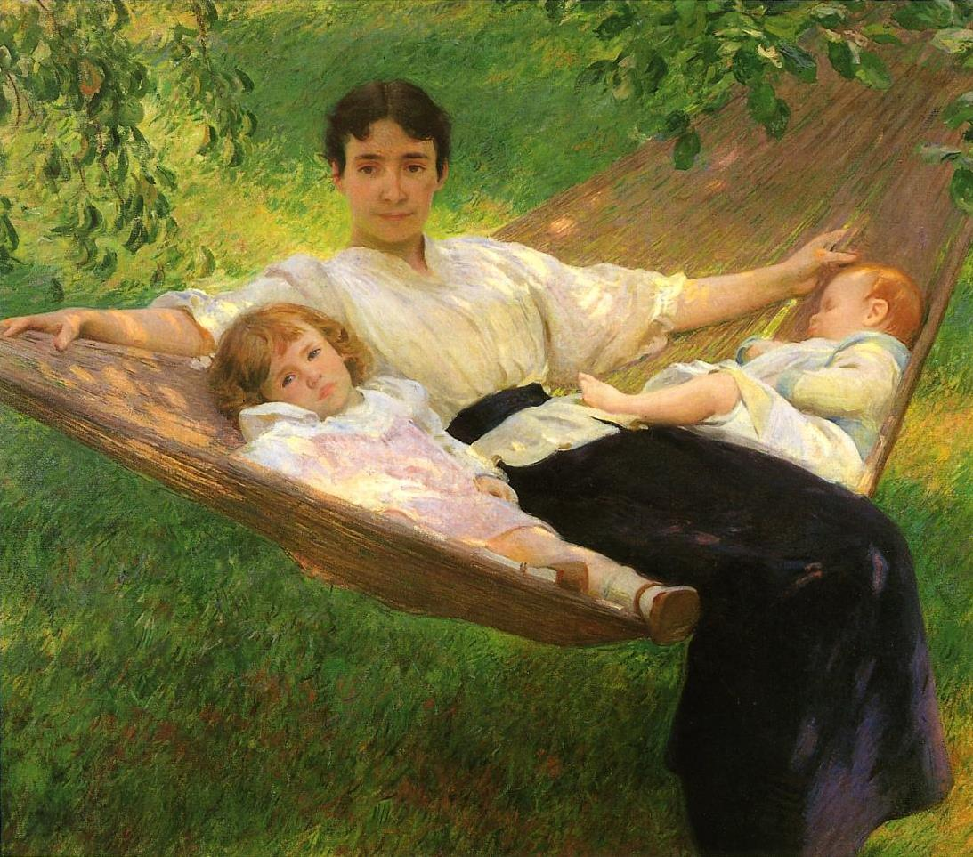 The Hammock - Portrait of the Artist's Wife and Children (1895) by Joseph DeCamp, private collection.